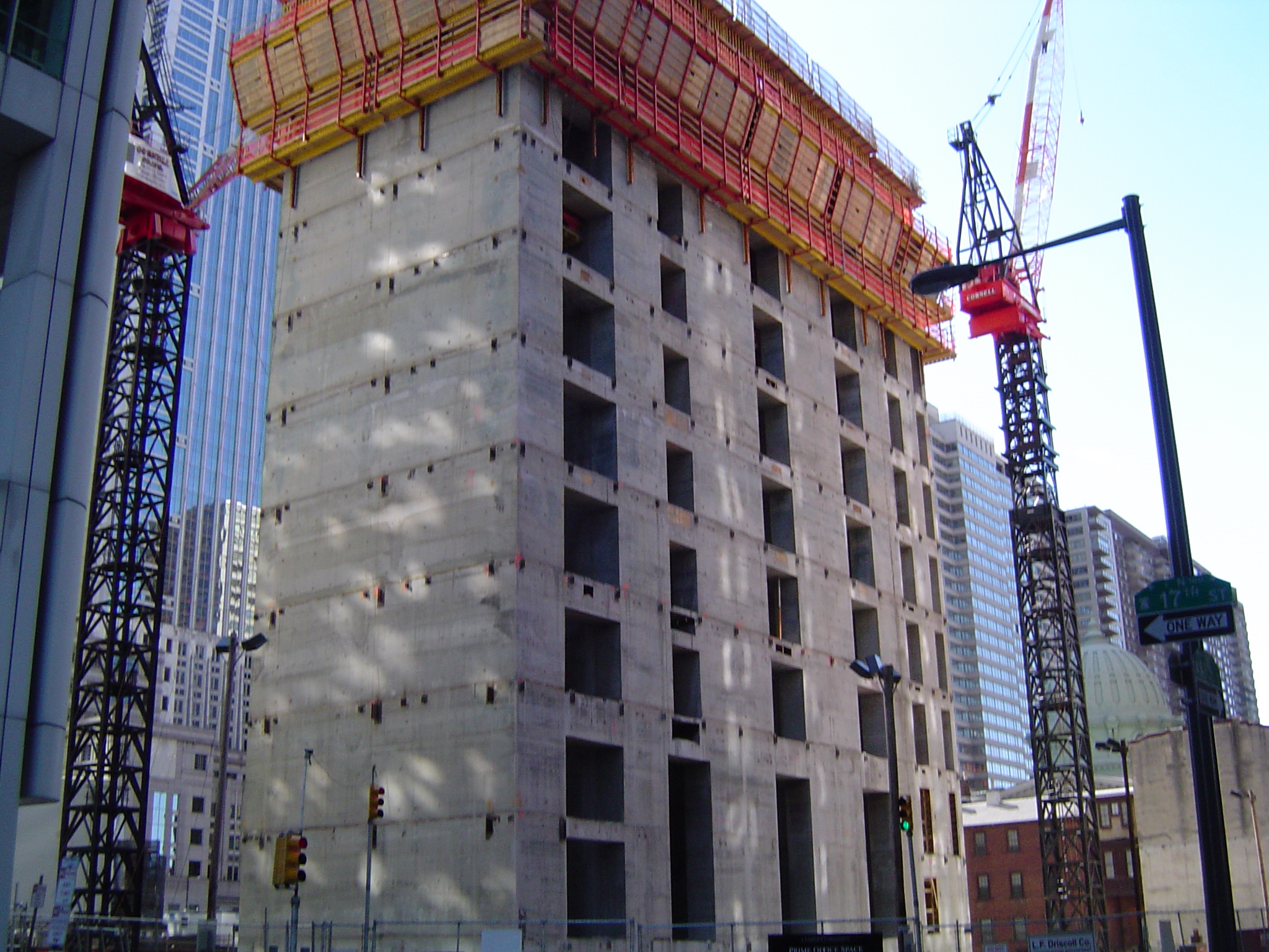 Construction begins at the Comcast Center in Philadelphia